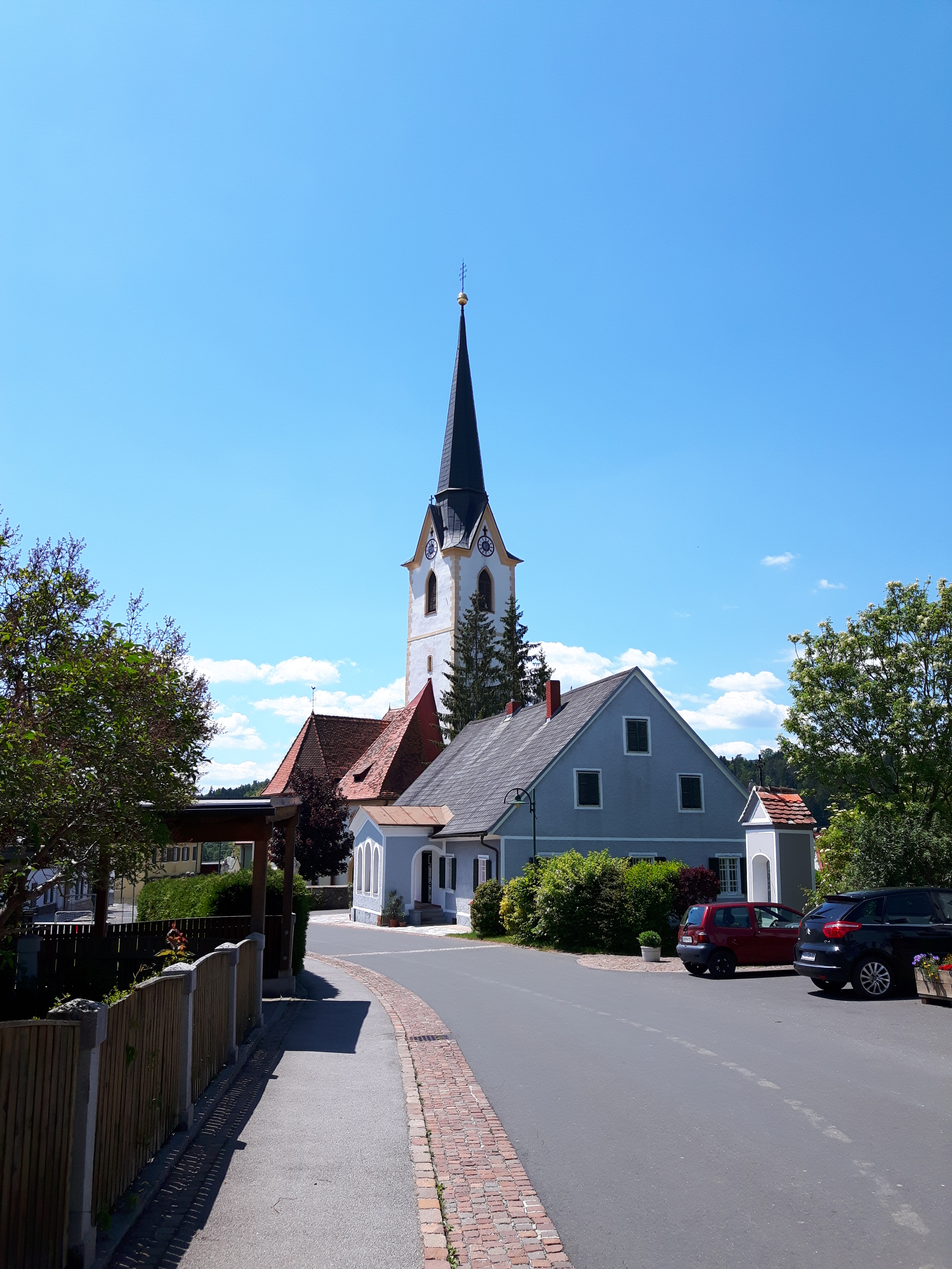 The parish church of Hitzendorf